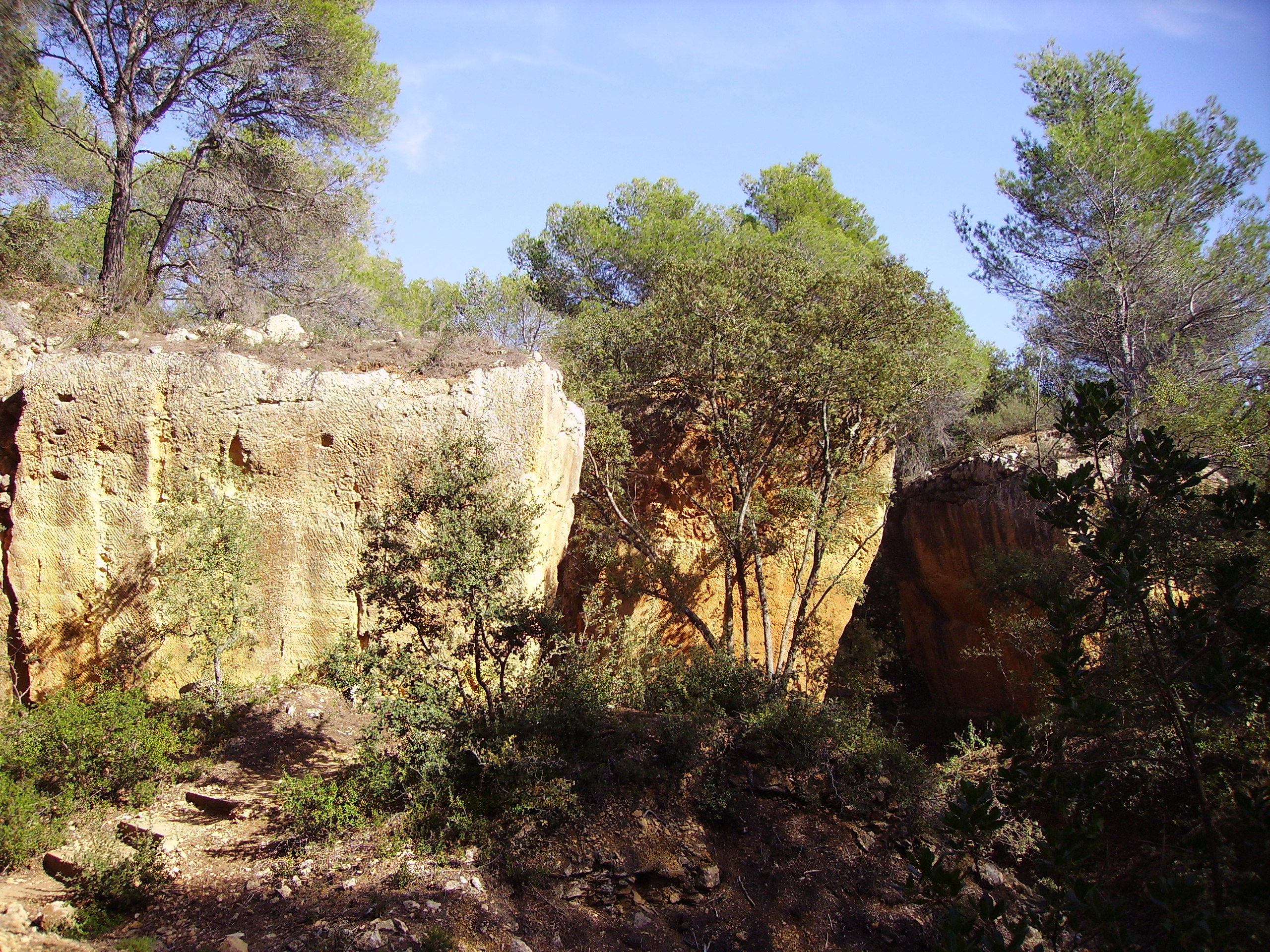 Photographer: User:Ballista